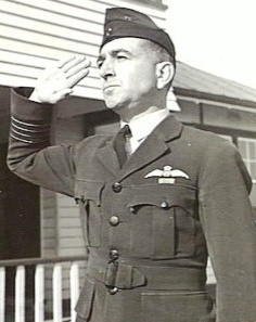 AWM Caption: TRAINEE BECOMES C.O. - GROUP CAPTAIN J.P.J. MCCAULEY, OFFICER COMMANDING NO. 1 FLYING TRAINING SCHOOL, POINT COOK, IS ONE OF THE YOUNGER OFFICERS OF THAT RANK. TRAINED AT POINT COOK AS AN AIR CADET IN 1924, HE IS THE STATION'S FIRST GRADUATE TO RETURN TO IT TO COMMAND. IN THE EARLY MONTHS OF THIS WAR HE WAS ONE OF THE OFFICERS RESPONSIBLE FOR THE DETAILED PLANNING OF AUSTRALIA'S SHARE IN THE VAST EMPIRE AIR SCHEME.